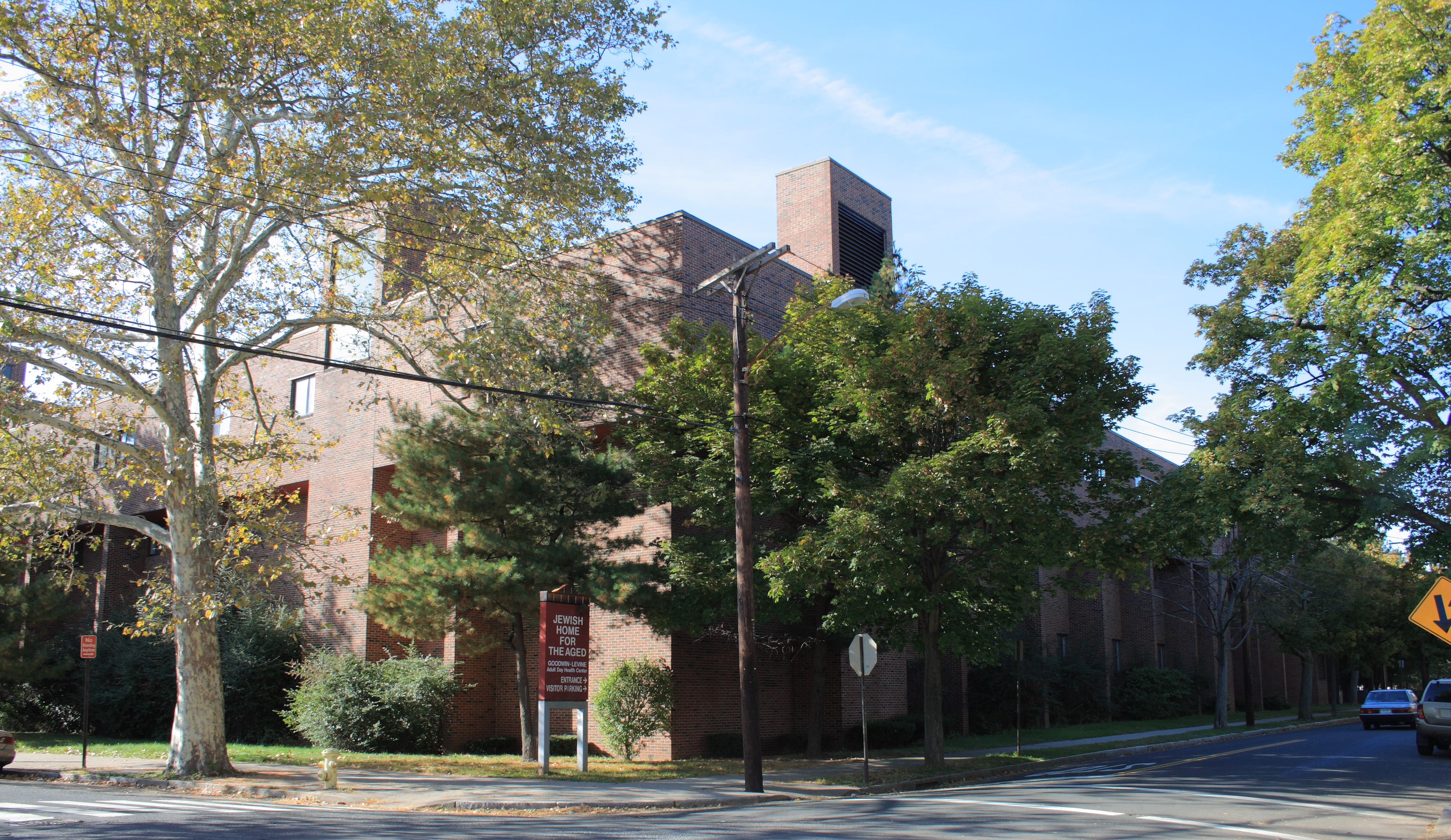 The New Haven Jewish Home for the Aged, 169 Davenport Ave., a Registered Historic Place in New Haven, Connecticut - OpenStreetMap(Info)